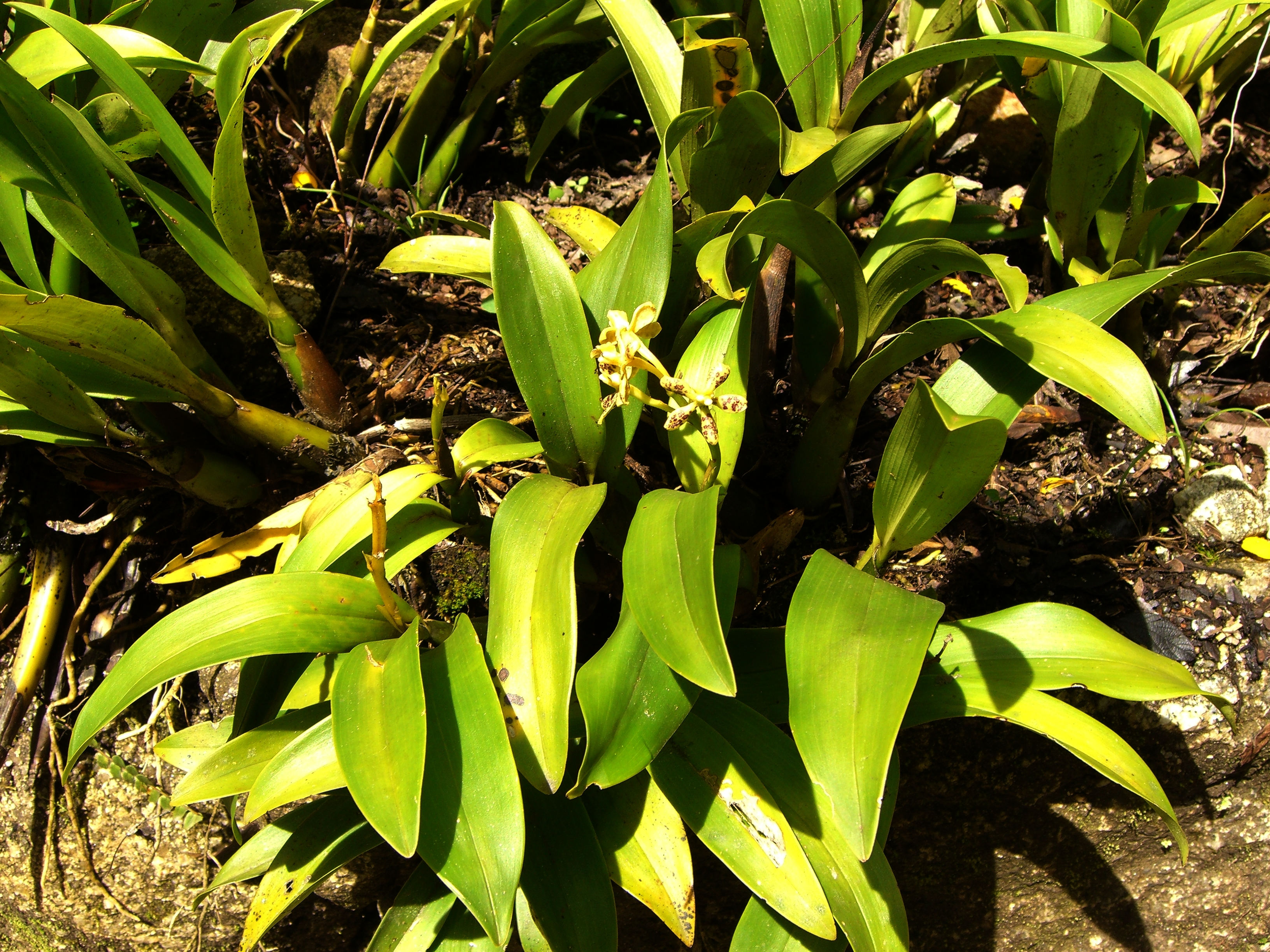 Please report references to .